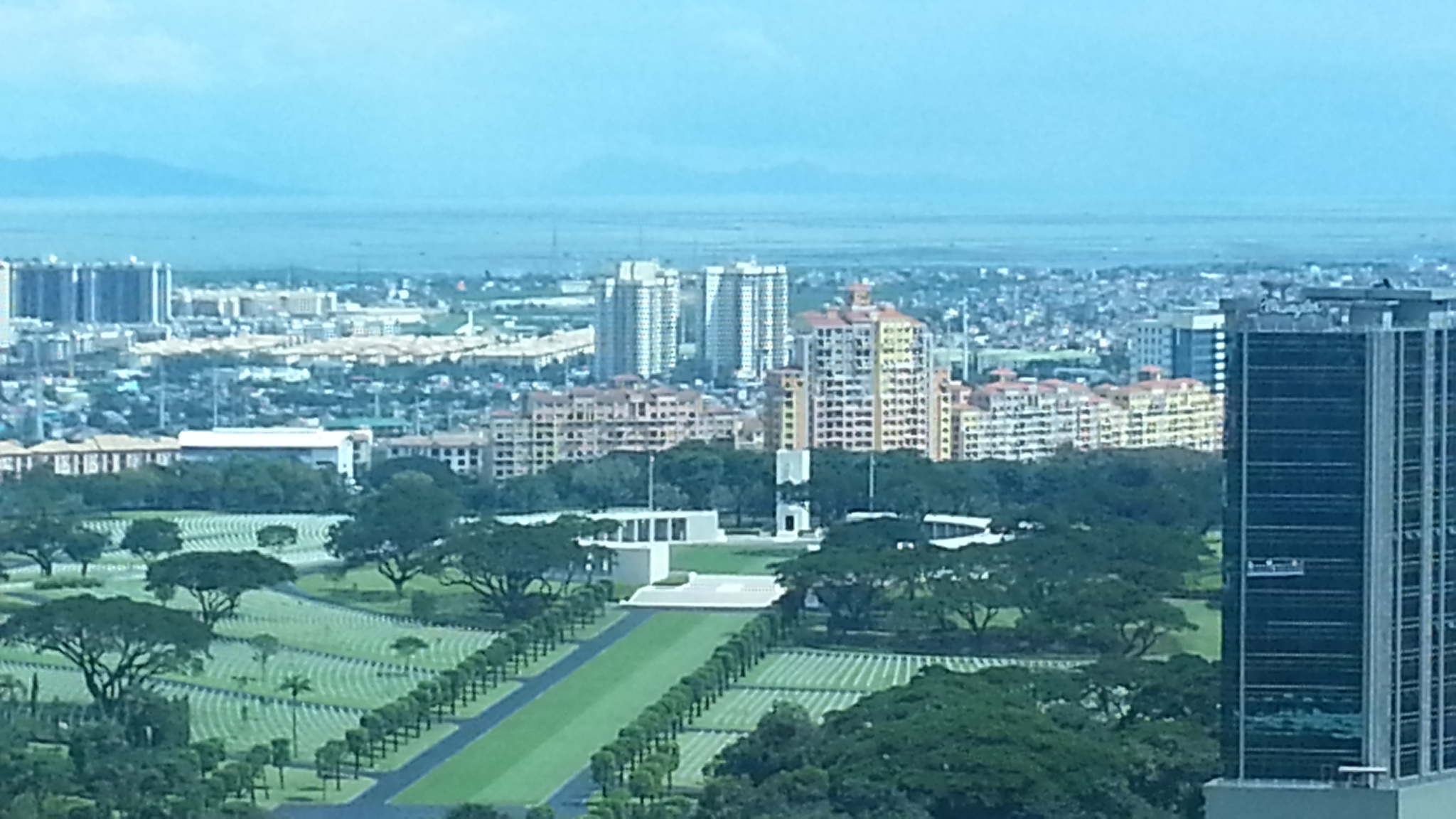 American Cementary and Memorial in Taguig, Fort Bonifacio